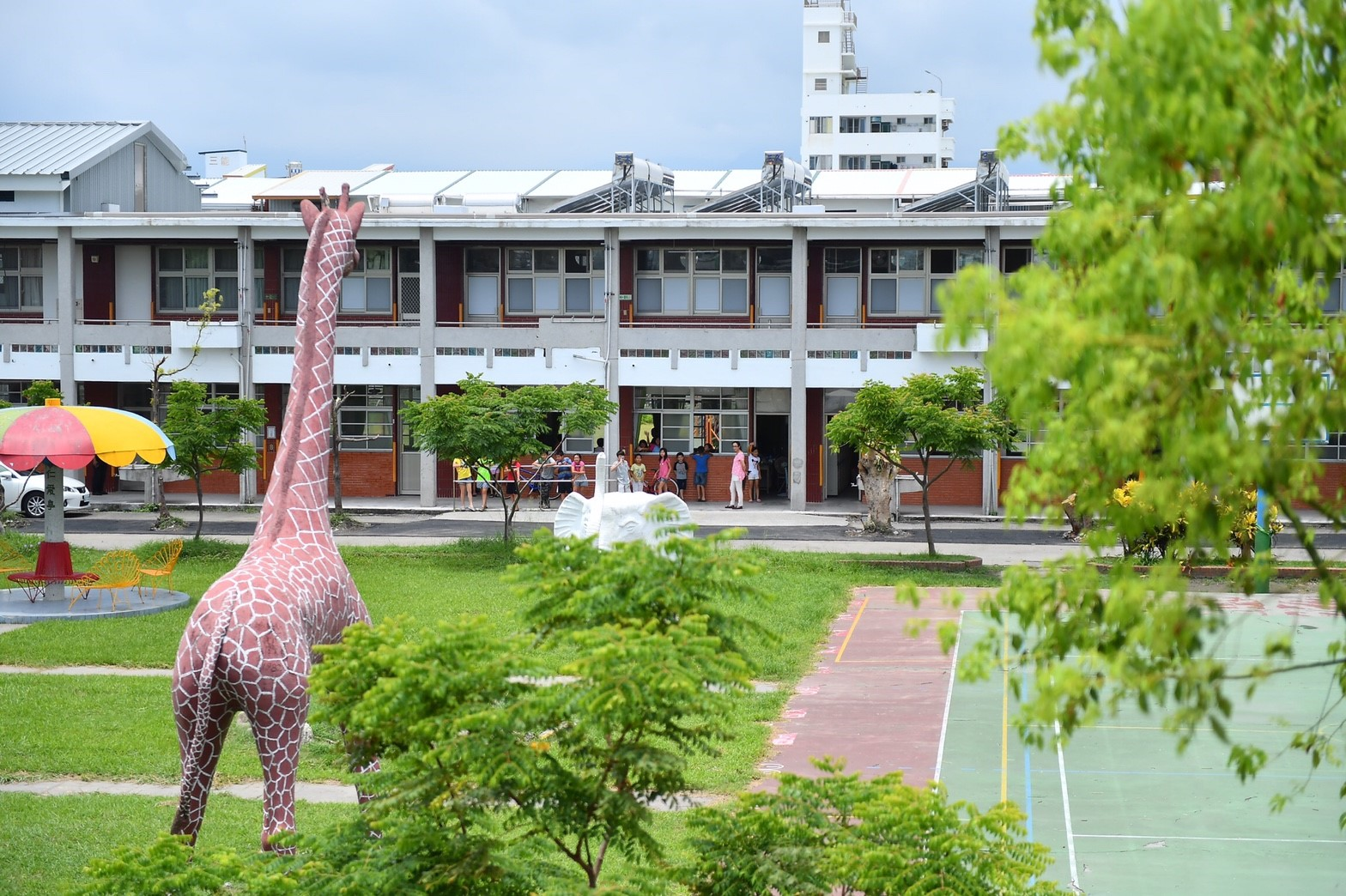 President Tsai inspects reconstruction of Ren-Ai Elementary School in Taitung City. (2016/08/11) 授權方式及範圍：中華民國總統府│政府網站資料開放宣告 Authorization Method & Scope: Office of the President, Republic of China (Taiwan) | Government Website Open Information Announcement